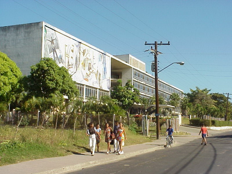 Human rights march passes the Main building of the Universidad de Oriente, in Santiago de Cuba.